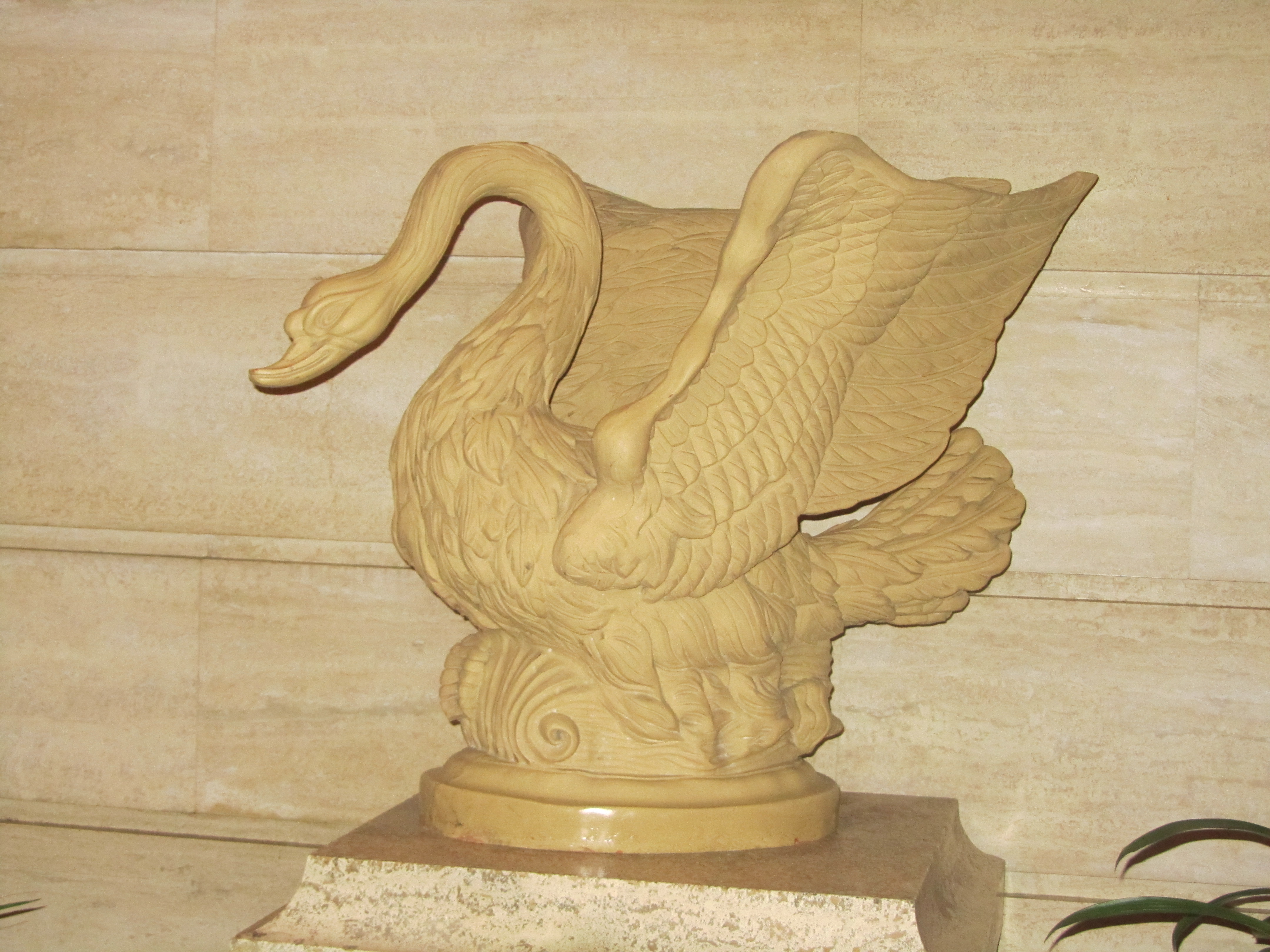 Hilton Chicago - statue of swan